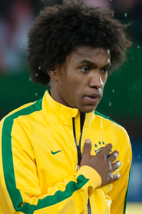 International Friendly Austria - Brazil November 18, 2014: Willian